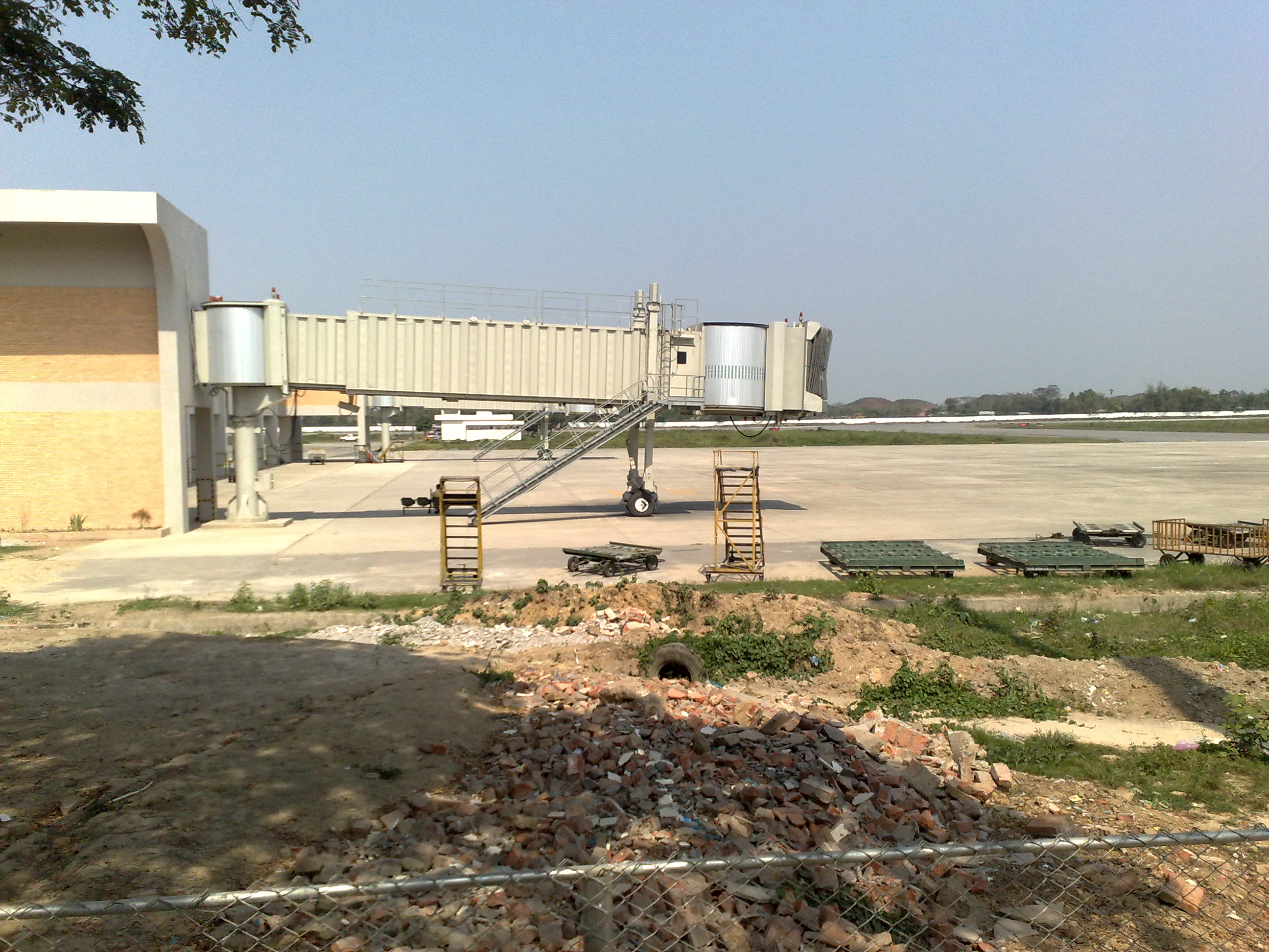 A jet bridge at Osmani International Airport, Sylhet, Bangladesh.